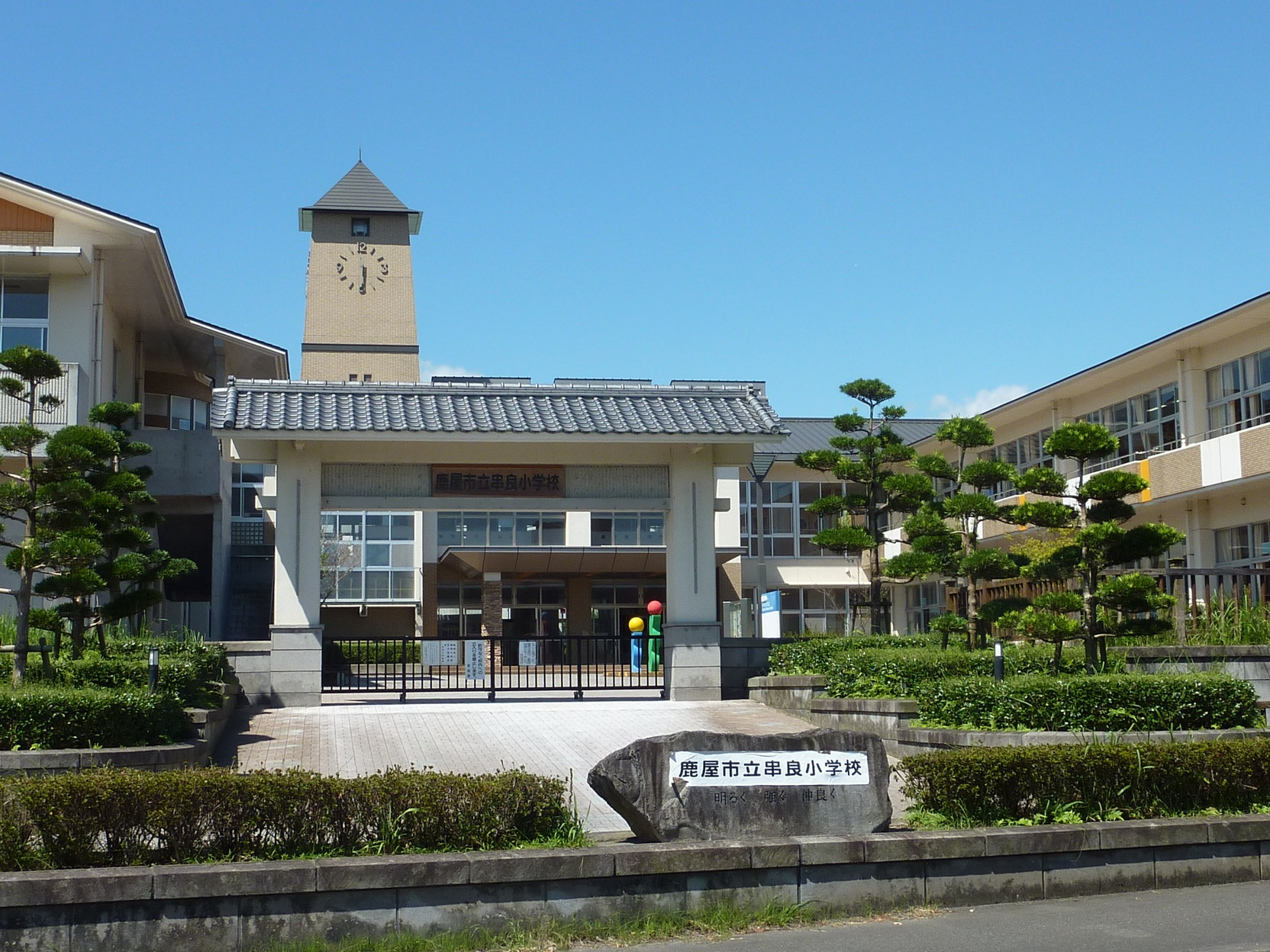 Kushira Elementary School (Kanoya City, Kagoshima, Japan)